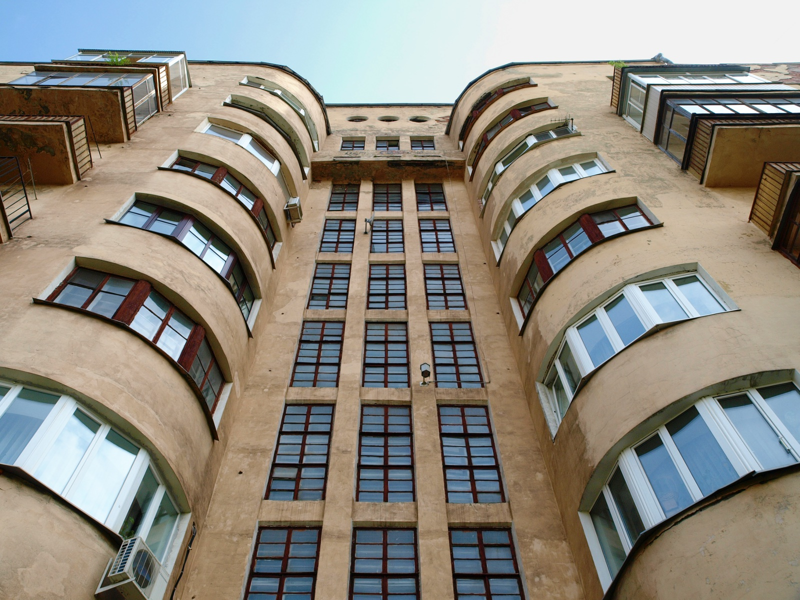 Basmanny Tupik, Moscow.